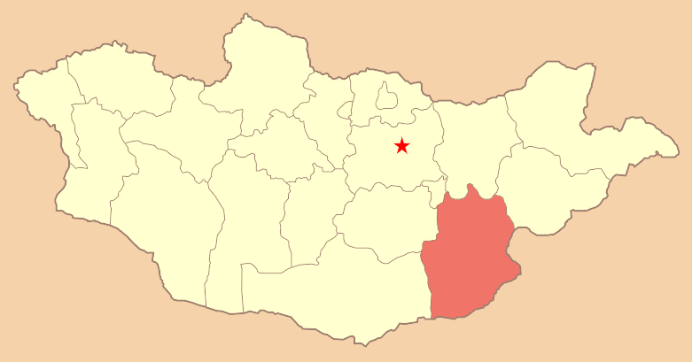 Map of Mongolia with Dornogobi Aimag highlighted.